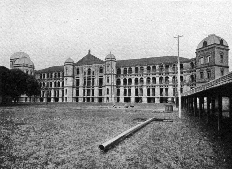 Part of the new Rangoon General Hospital